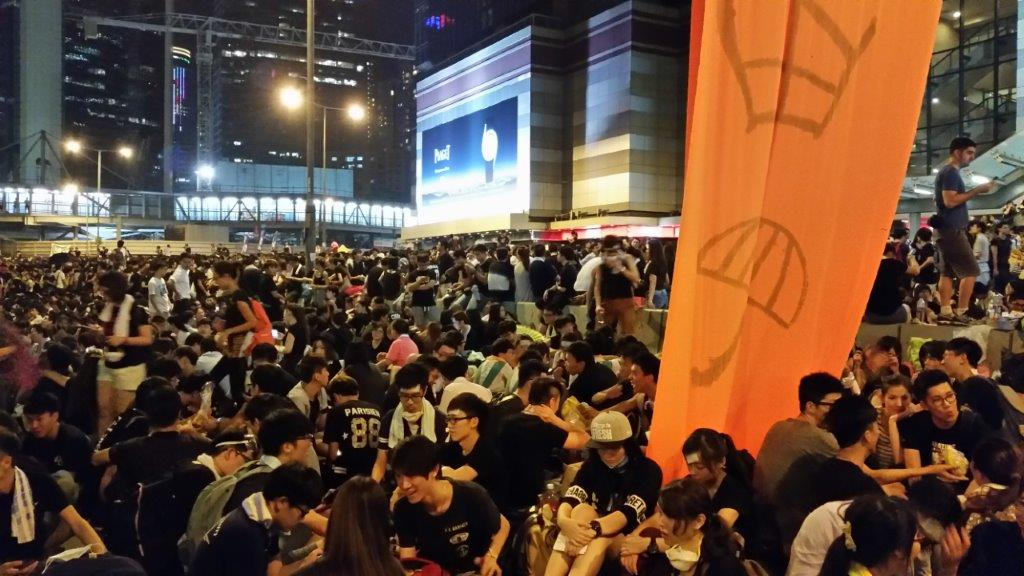 Easterly view of Occupy protest with Umbrella banner, 29 September 2014